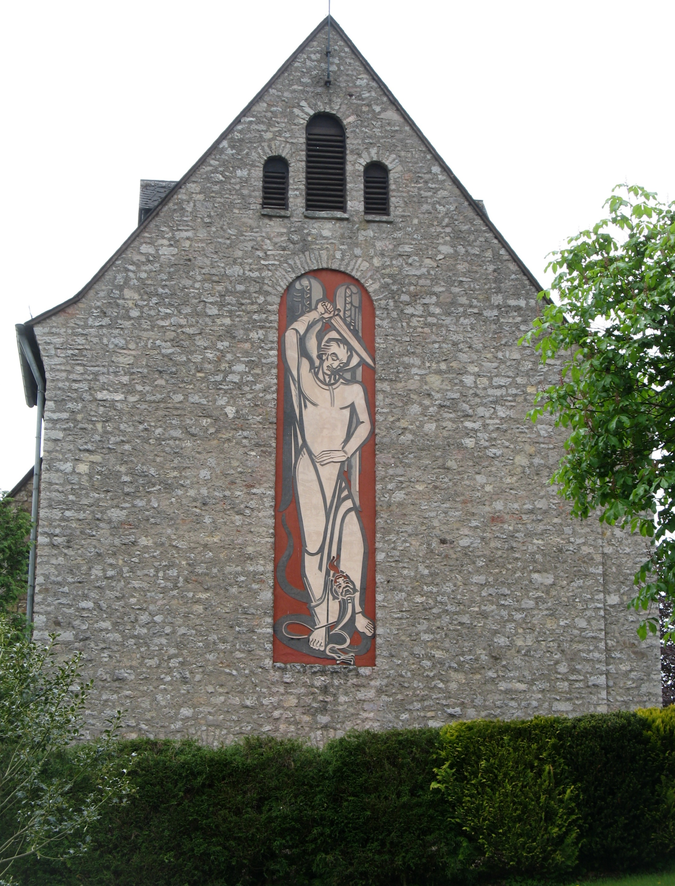 Outer-wall of Saint-Michael chapel (consecrated in 1942) with sgraffito of Saint Michael by Ernst Jansen-Winkeln (1904-1992) in Rinnen village (pop. 380), Germany